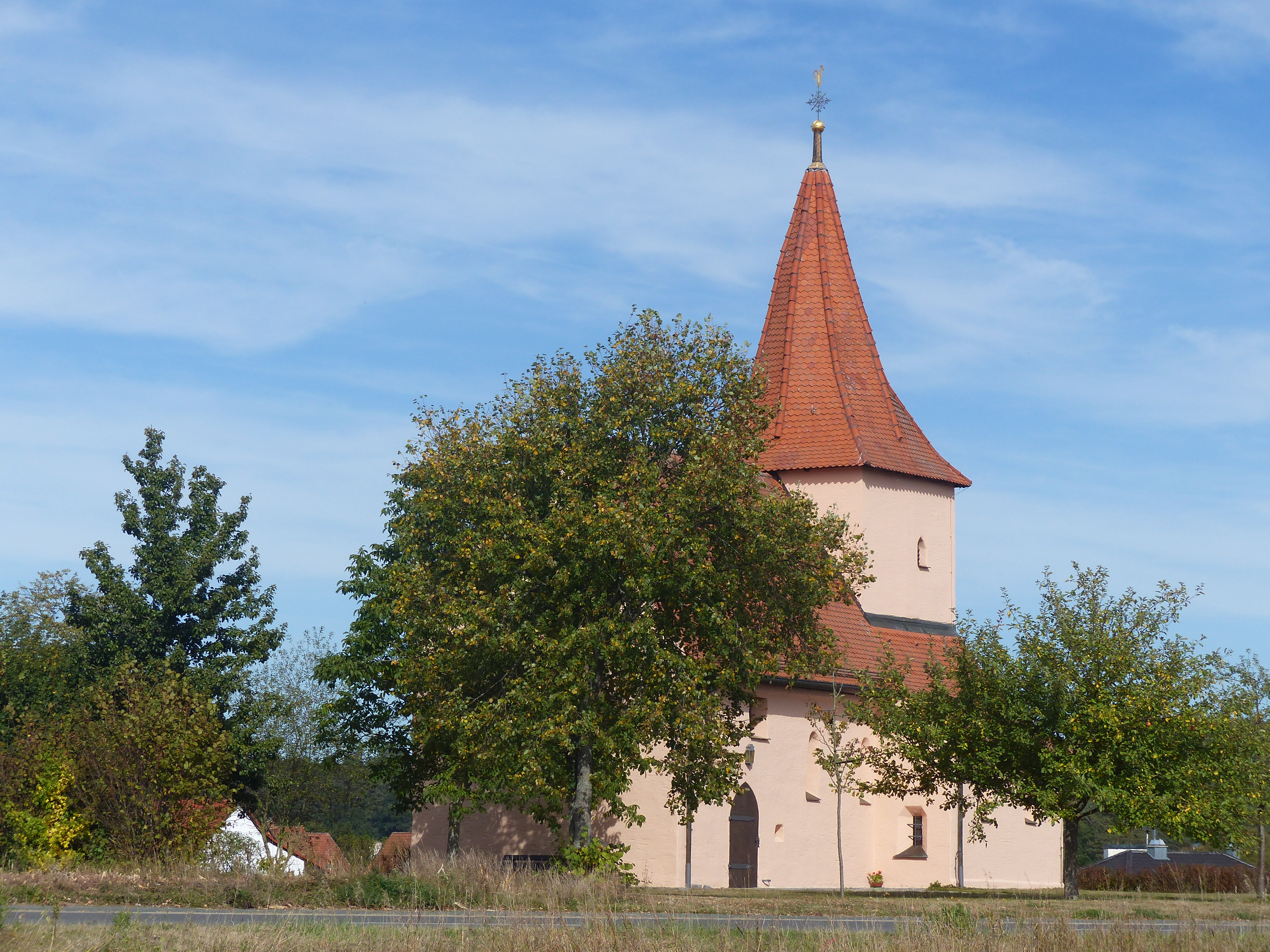 The church of the village Poppendorf, a district of the municipality of Heroldsbach.